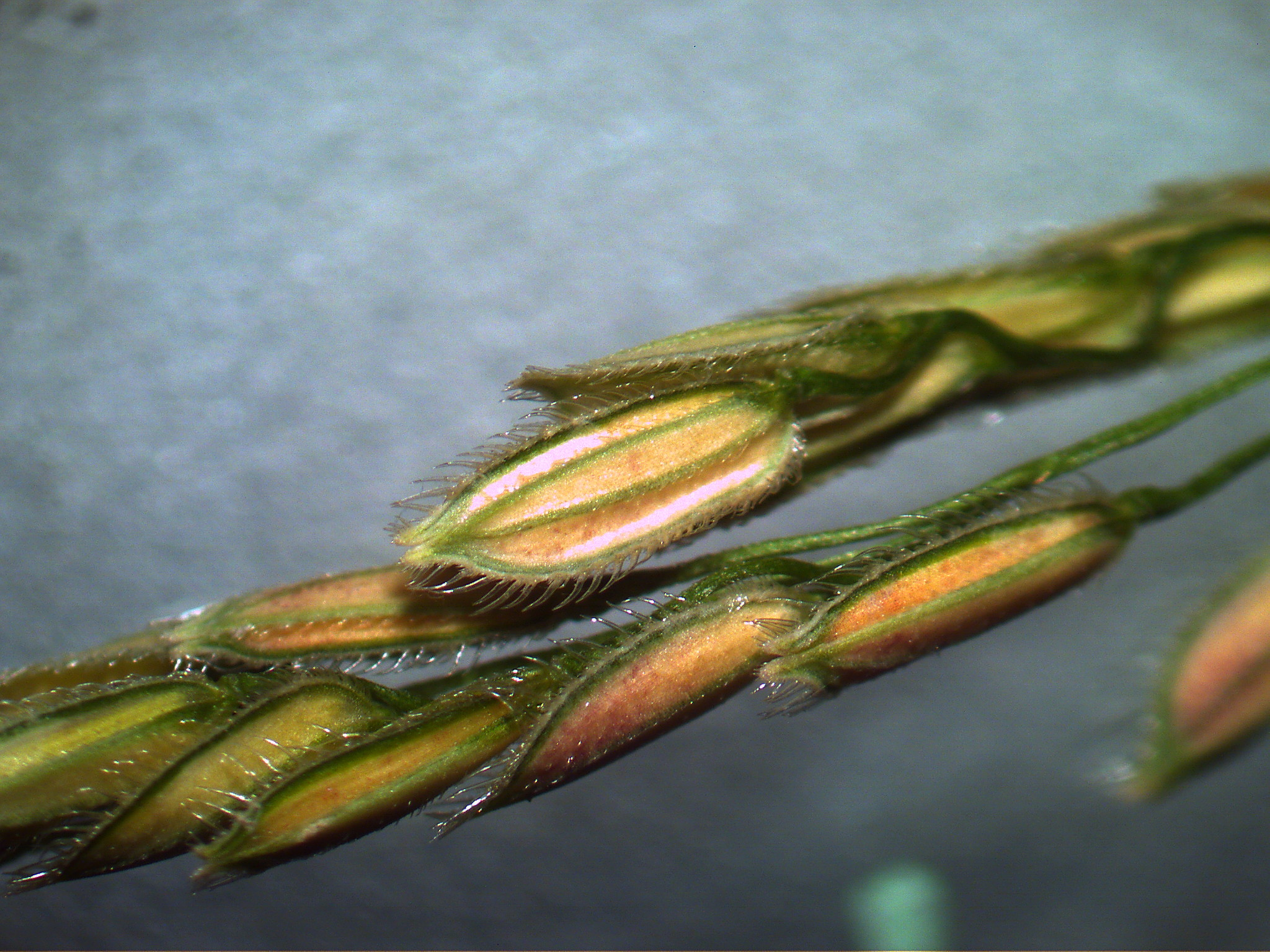 Leersia hexandra spikelets